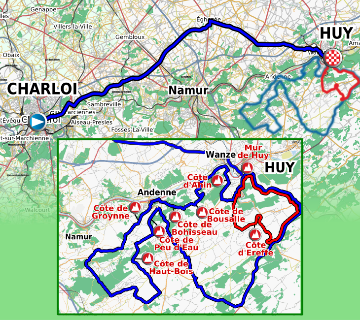 Fleche wallonne route 2011